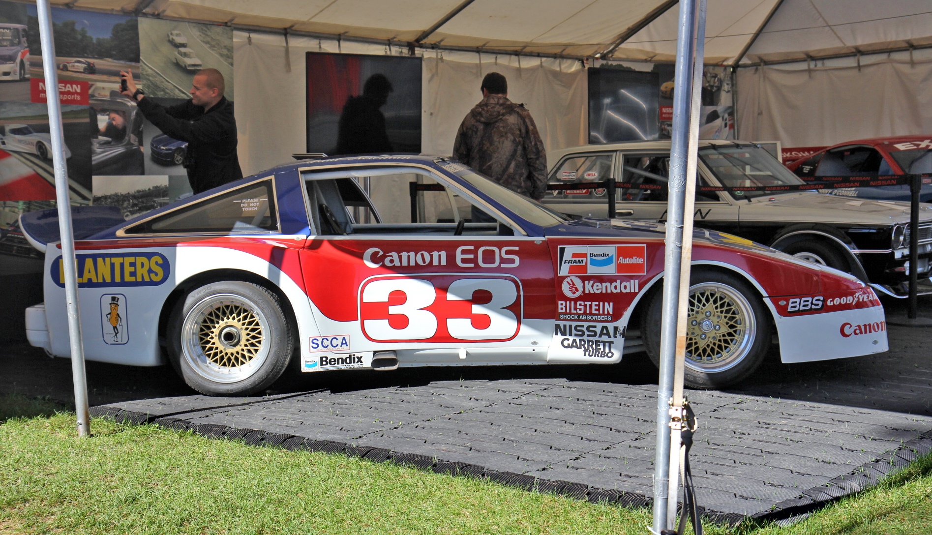 A Paul Newman Nissan race car on display at Road America during the 2013 SCCA National Runoffs. This image has been uploaded to my flickr account at .